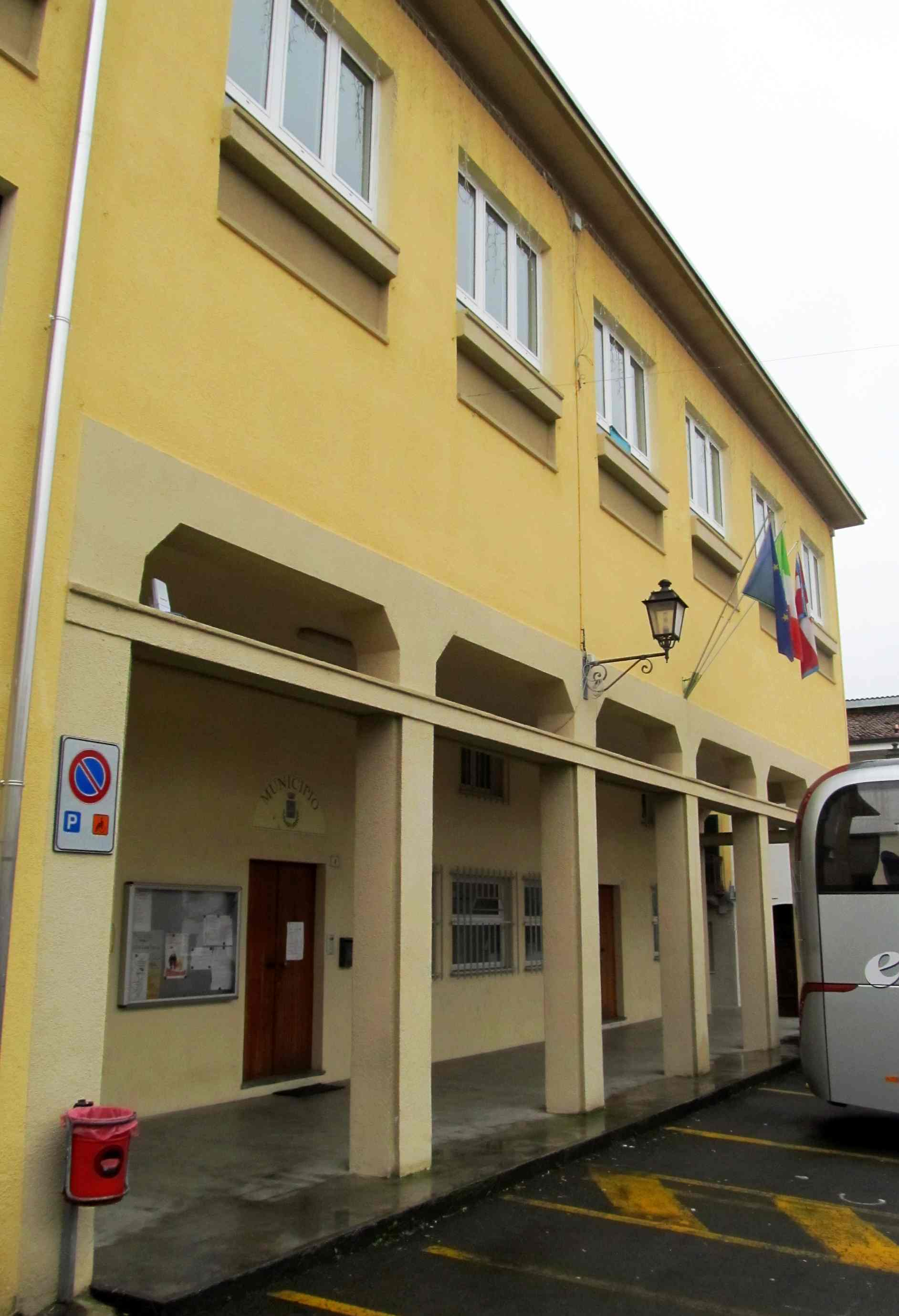 Mercenasco (TO, Italy): town hall